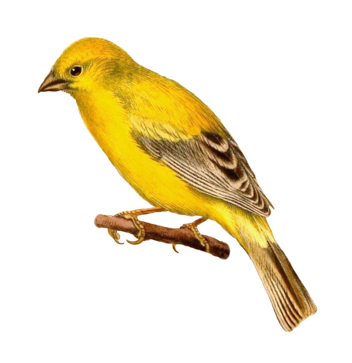 A cut-out from an illustration by Henrik Grönvold of an Arabian Golden Sparrow, from G. E. Shelley's Birds of Africa